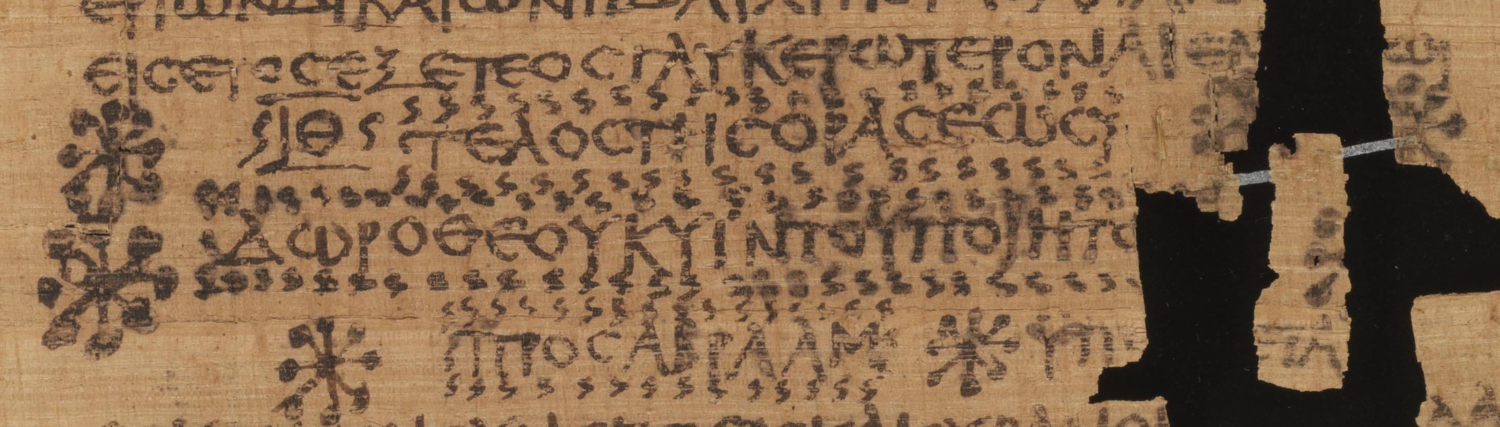 Page of the papyrus of the Vision of Dorotheos, a c. 5th-century Greek poem, final three lines. Part of the Bodmer Papyri, specifically the Codex of Visions. Contains the identification of the authorː "τέλος τἦς ὁράσεως // Δωροθέ Κυΐντου ποιητοῠ"